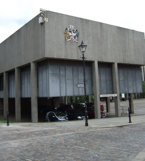 Darlington Town Hall North wing, with the town crest, at the corner of market place near st Cuthbert's Church. The site was once the 'Lead Yard' bus station.